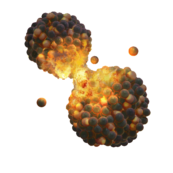 Nuclear fission